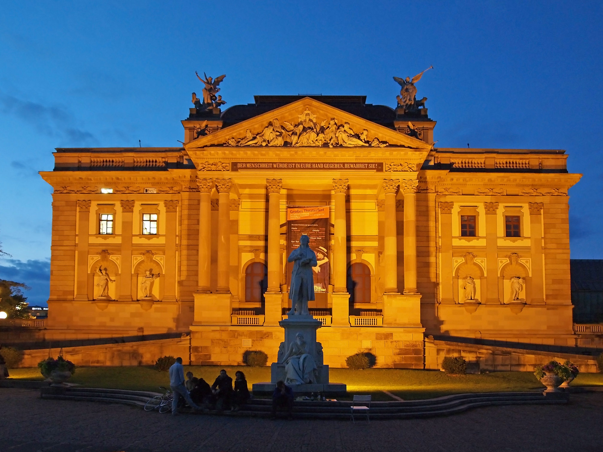 State Theatre of the German state Hesse in the capital Wiesbaden from the park Warmer Damm in the evening